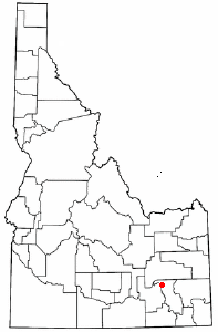 Map of Idaho, dot on Pocatello